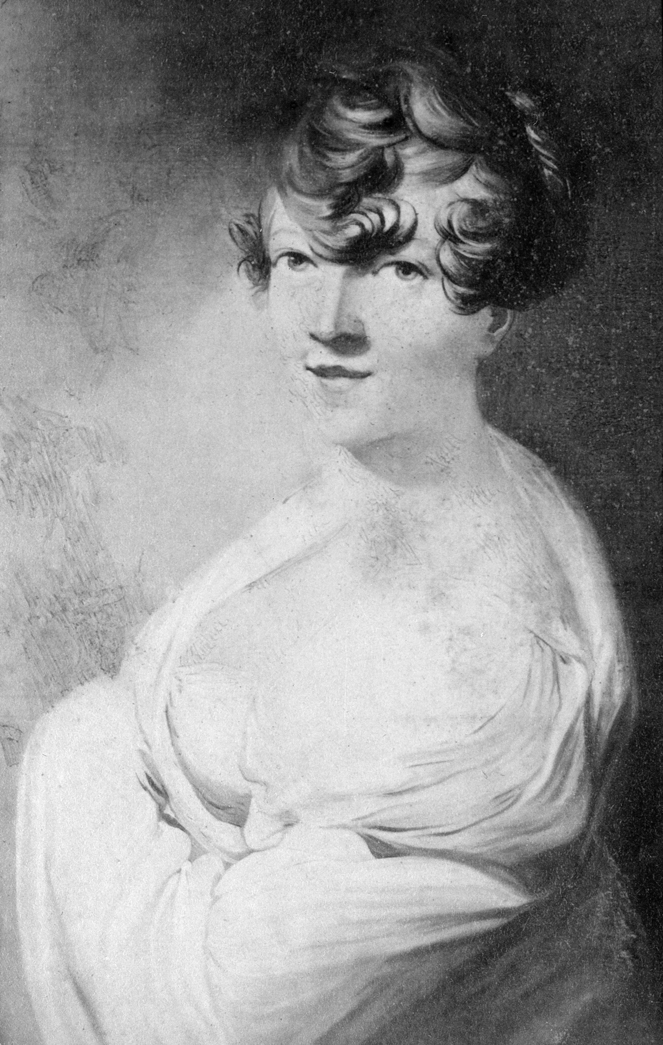 Johanna Wilhelmine von der Decken (1786-1860) married 1806 Oberhofmarschall Georg August von Wangenheim